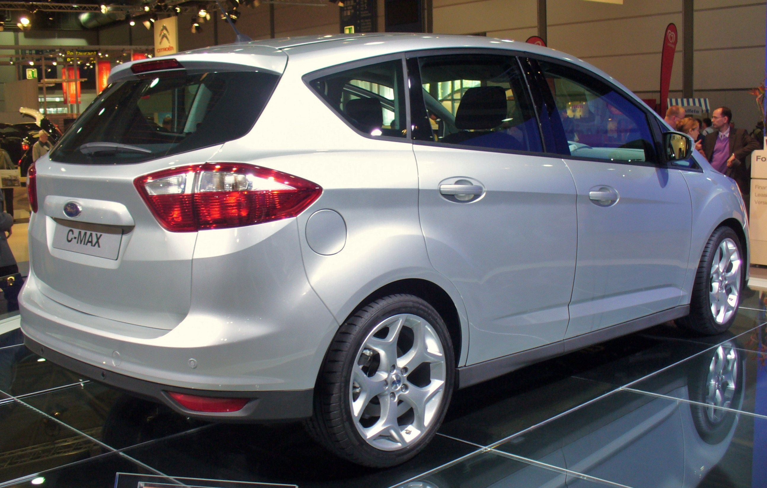 Ford C-Max